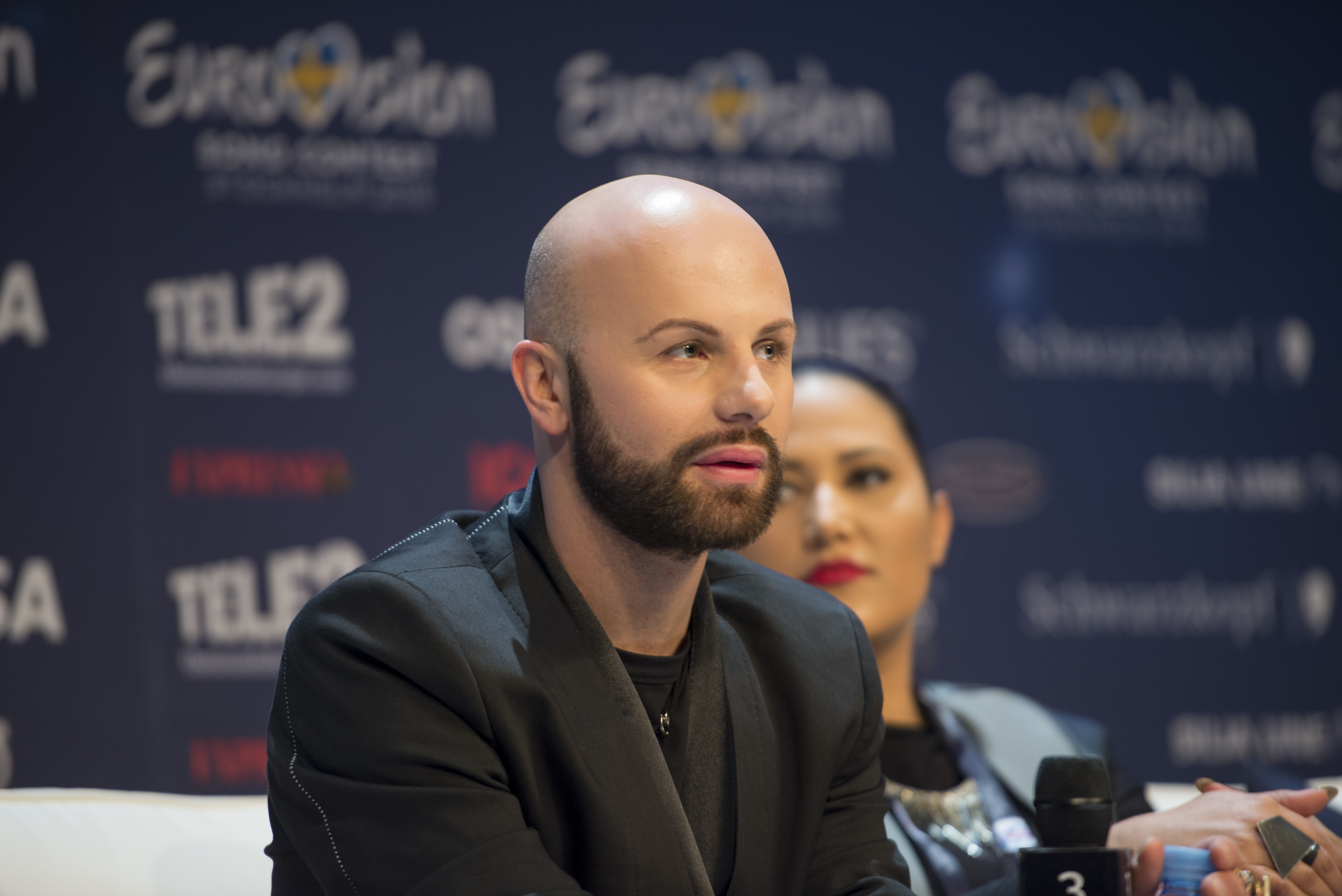 Dalal & Deen feat. Ana Rucner and Jala at a Meet & Greet during the Eurovision Song Contest 2016 in Stockholm. (Help translate this text)